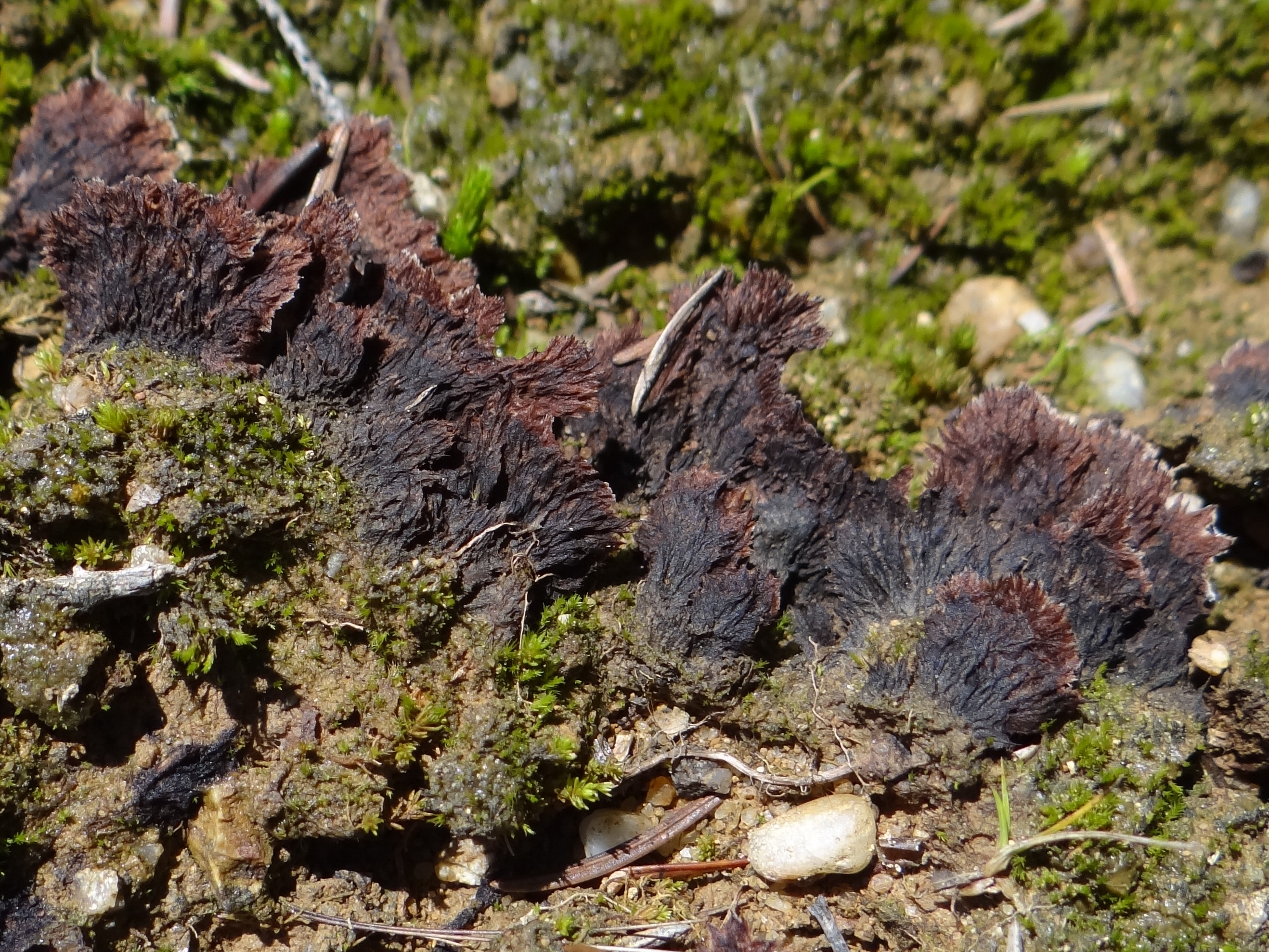 Thelephora terrestris